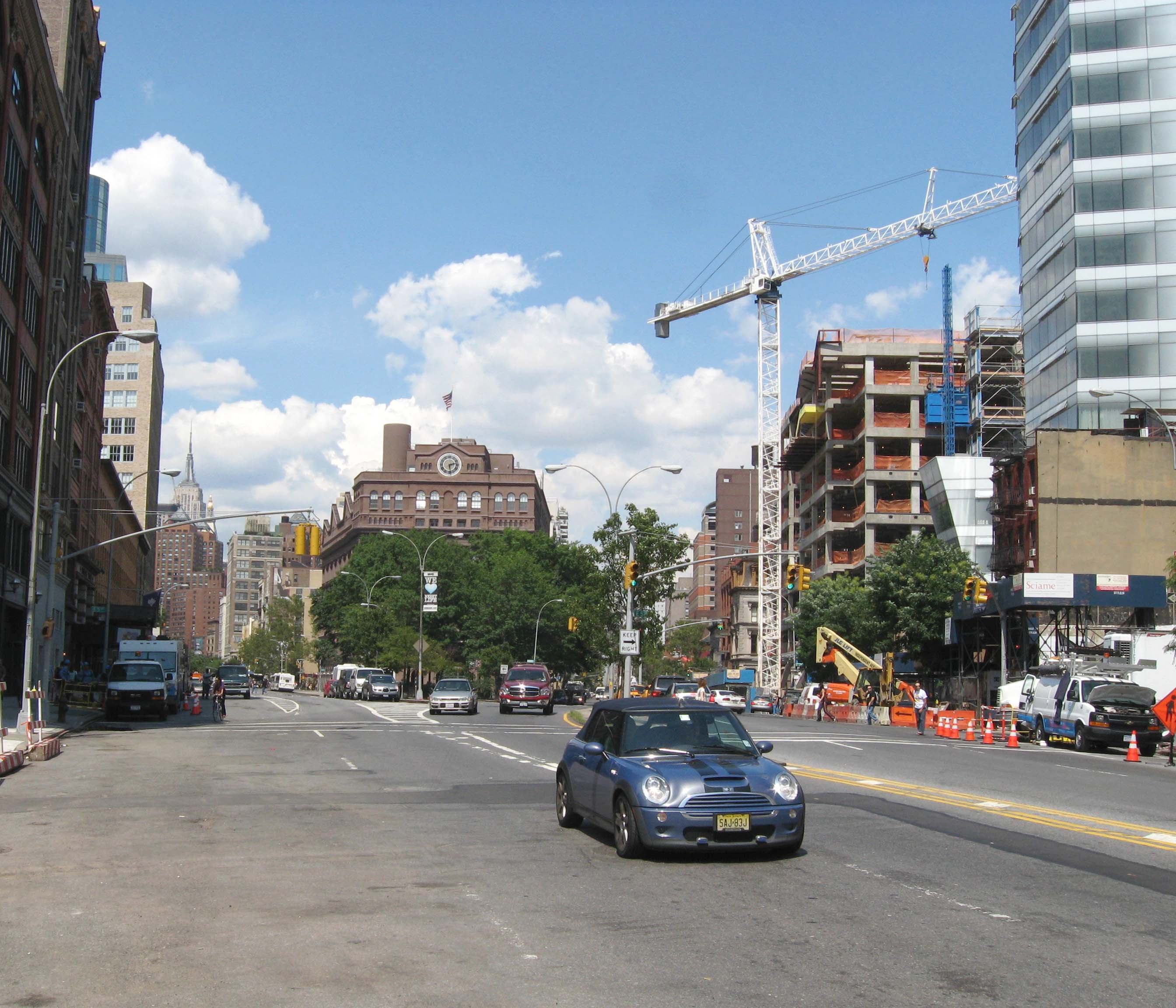 Looking north on Cooper Square on a sunny early afternoon. ZIP 10009.